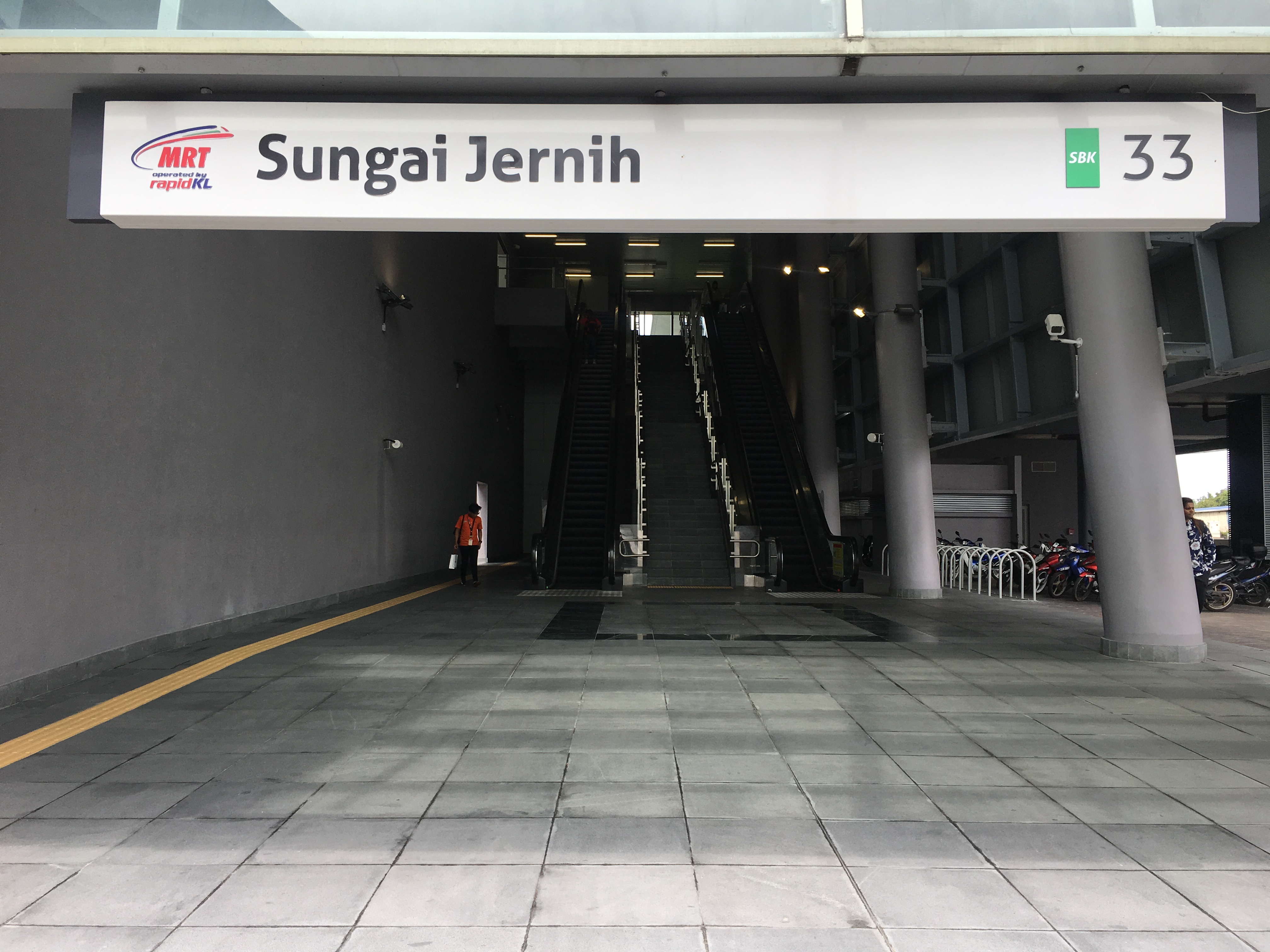 Entrance B of the station on the east side of Jalan Cheras.